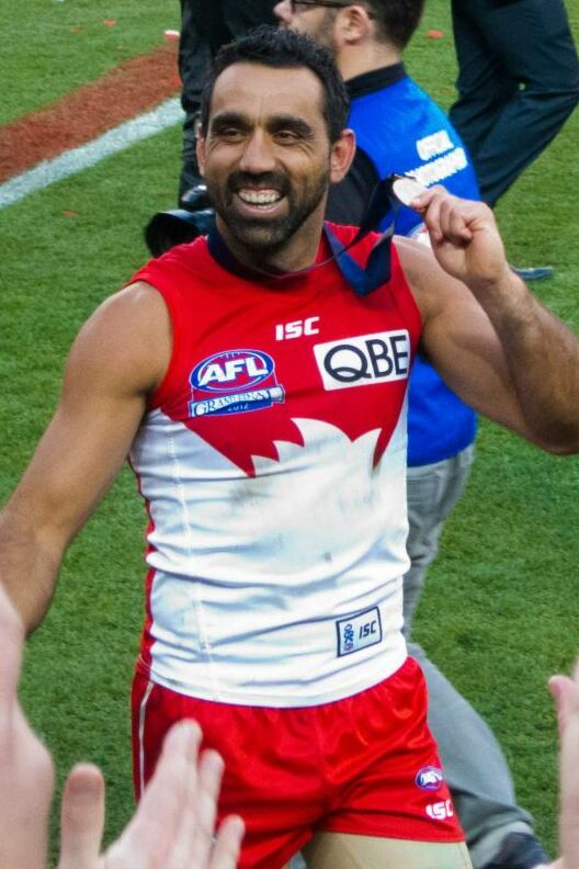 Adam Goodes celebrates the Sydney Swans 2012 AFL Grand Final win during a lap of honour around the MCG